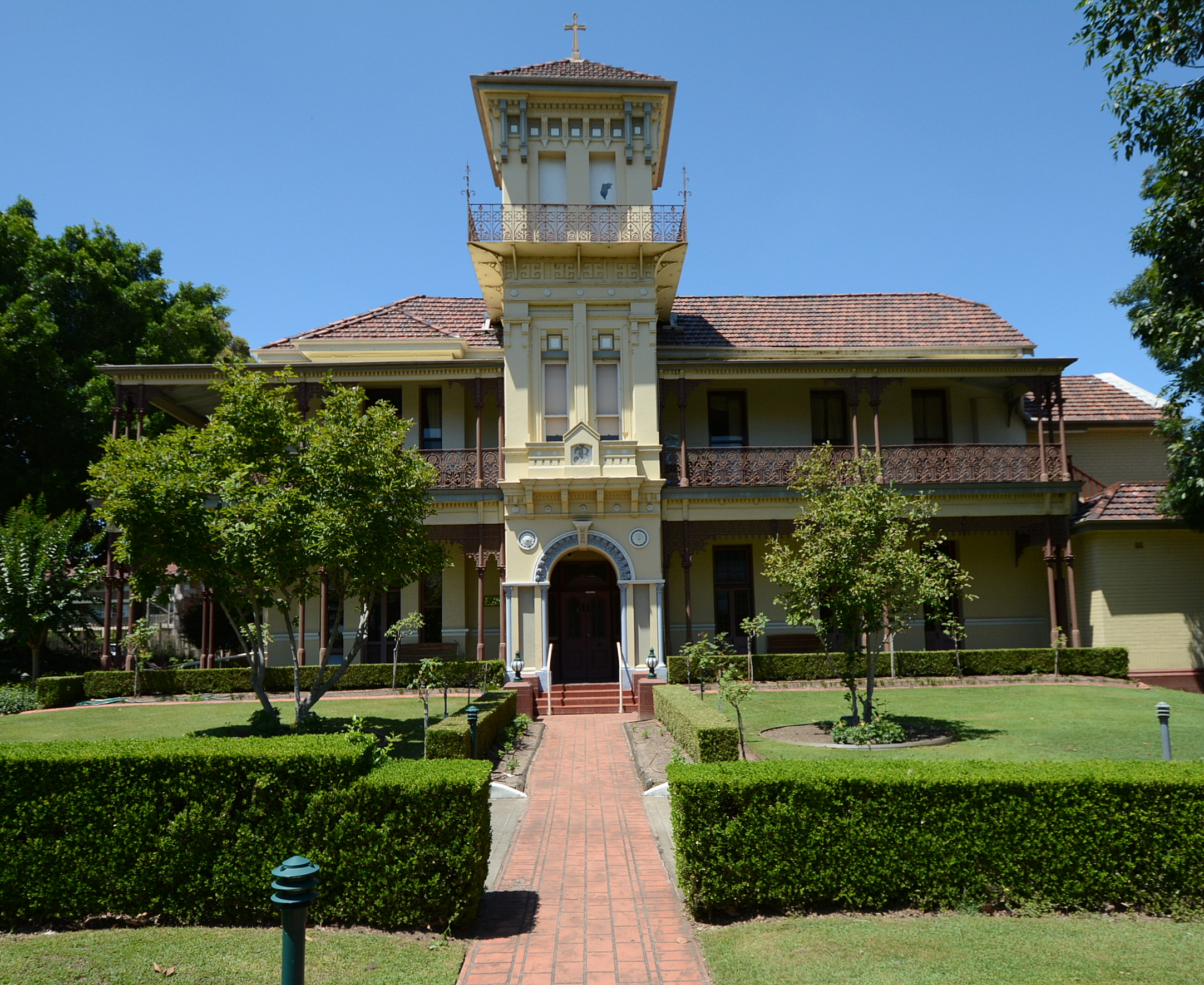 Duncraggan Hall, St Joseph's Village, Auburn, Sydney